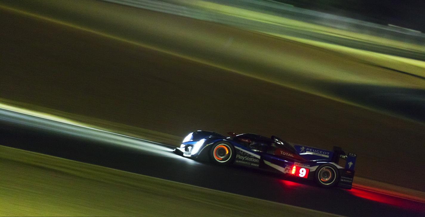 Le Mans 2011 - Qualifying 3 - Peugeot 908 #9